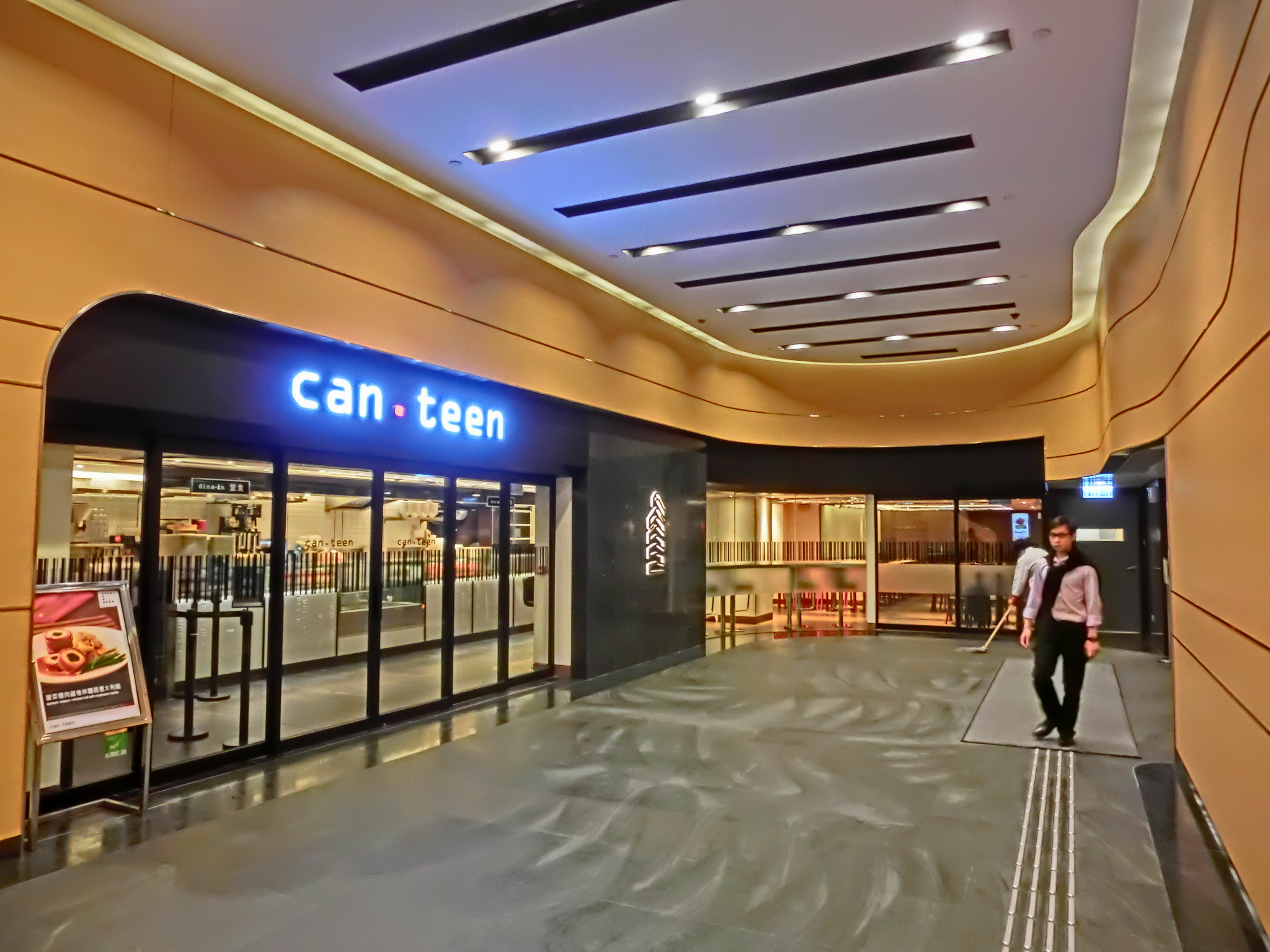 金鐘夏慤道, Harcourt Road, Admiralty, Hong Kong